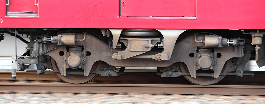 Type TH-800 bogie truck of Keihin Electric Express Railway 800 Series EMU